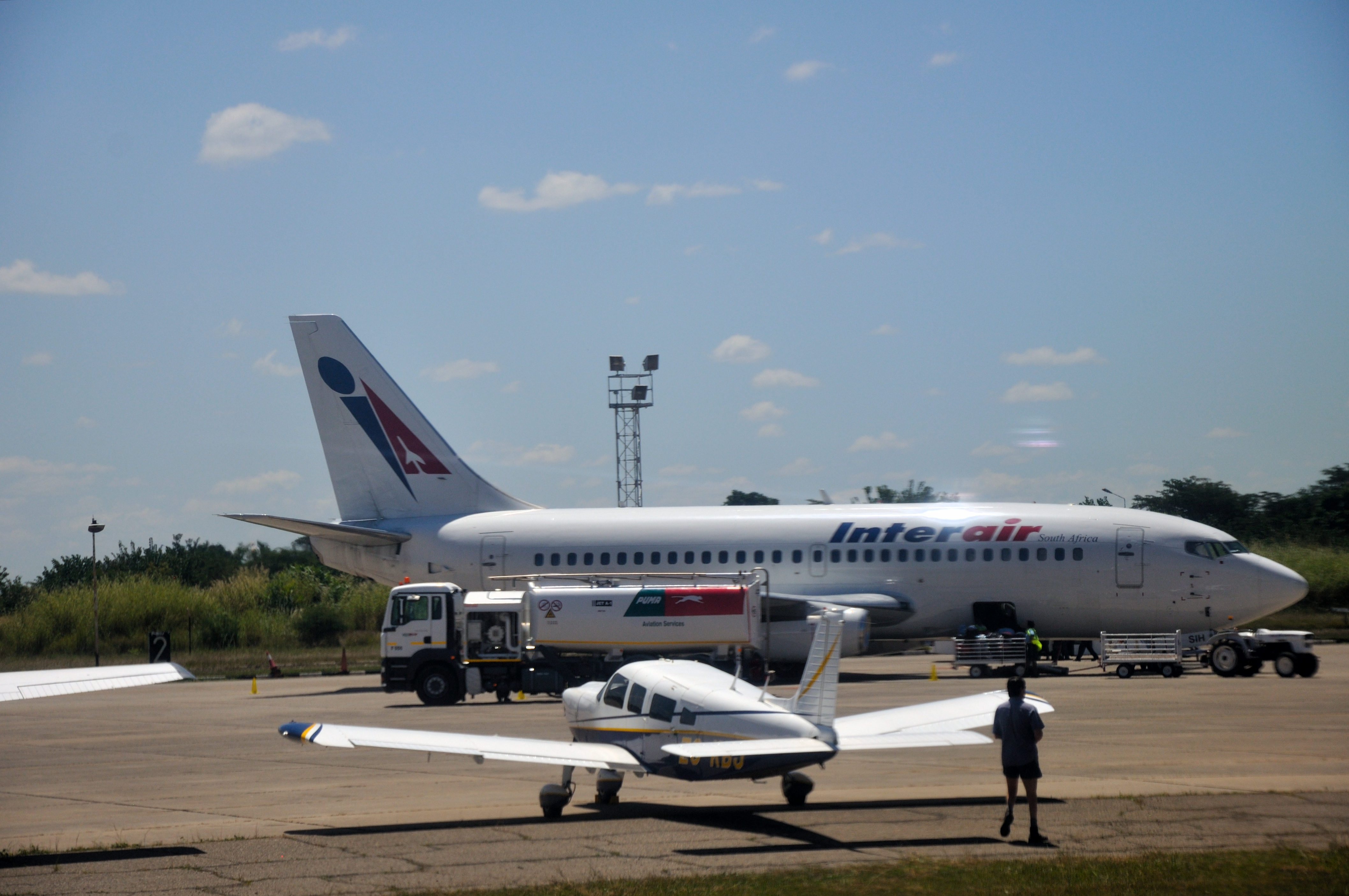 Zambia, spotting at Ndola International Airport